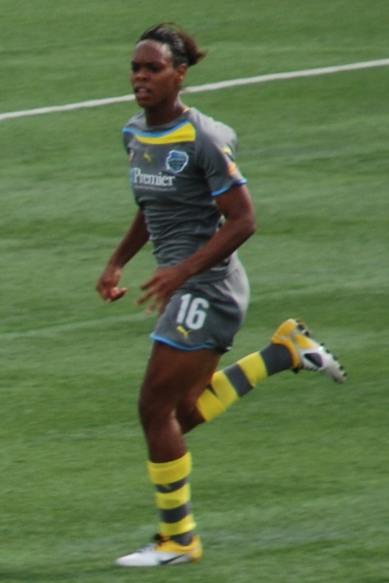 Kia McNeill (Philadelphia Independence)